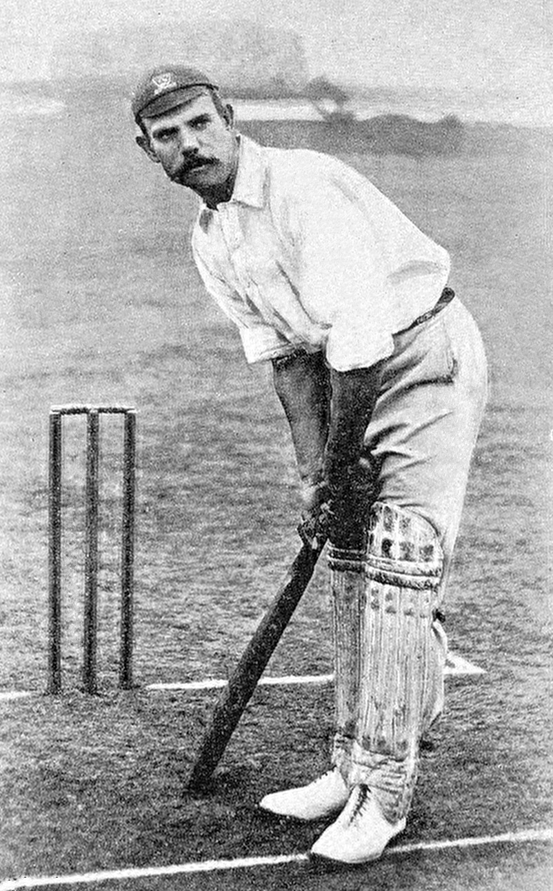 Scan of cricketer George Bean